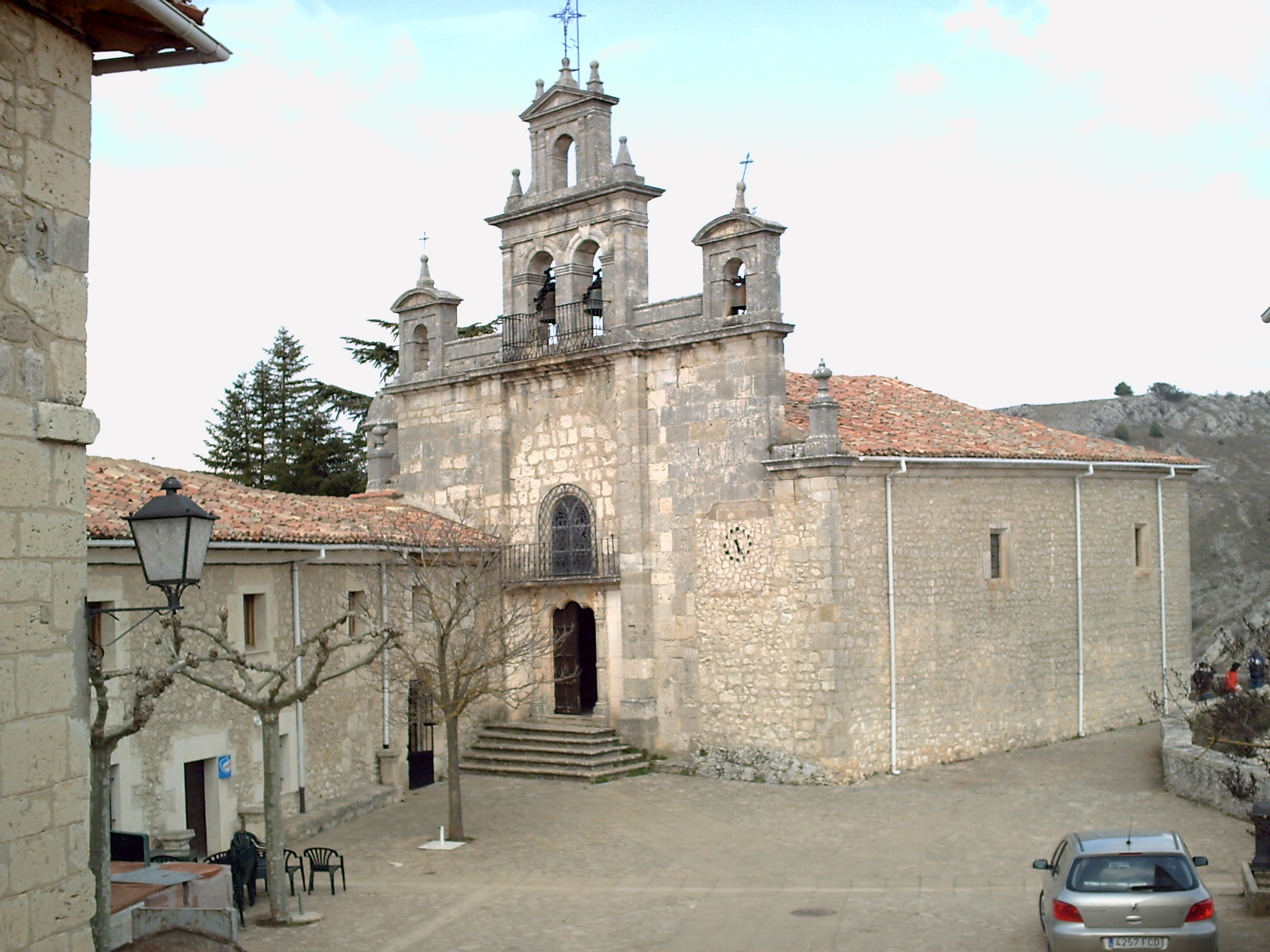 Saint Casilda sanctuary, at Salinillas de Bureba, Burgos, Spain